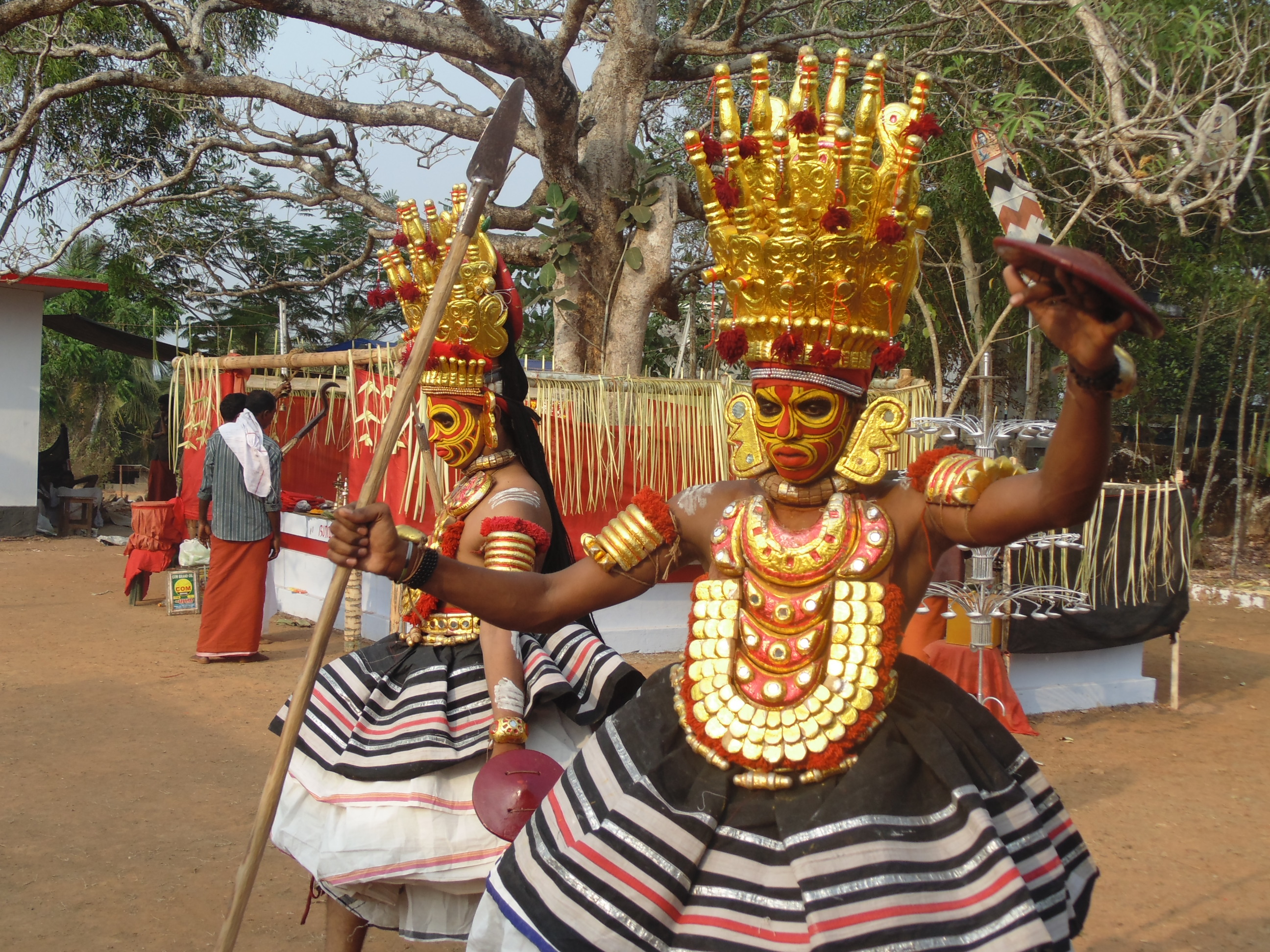 Thirayattam- Karumakan Vallattu, /An Ethnic Dance Form of Kerala